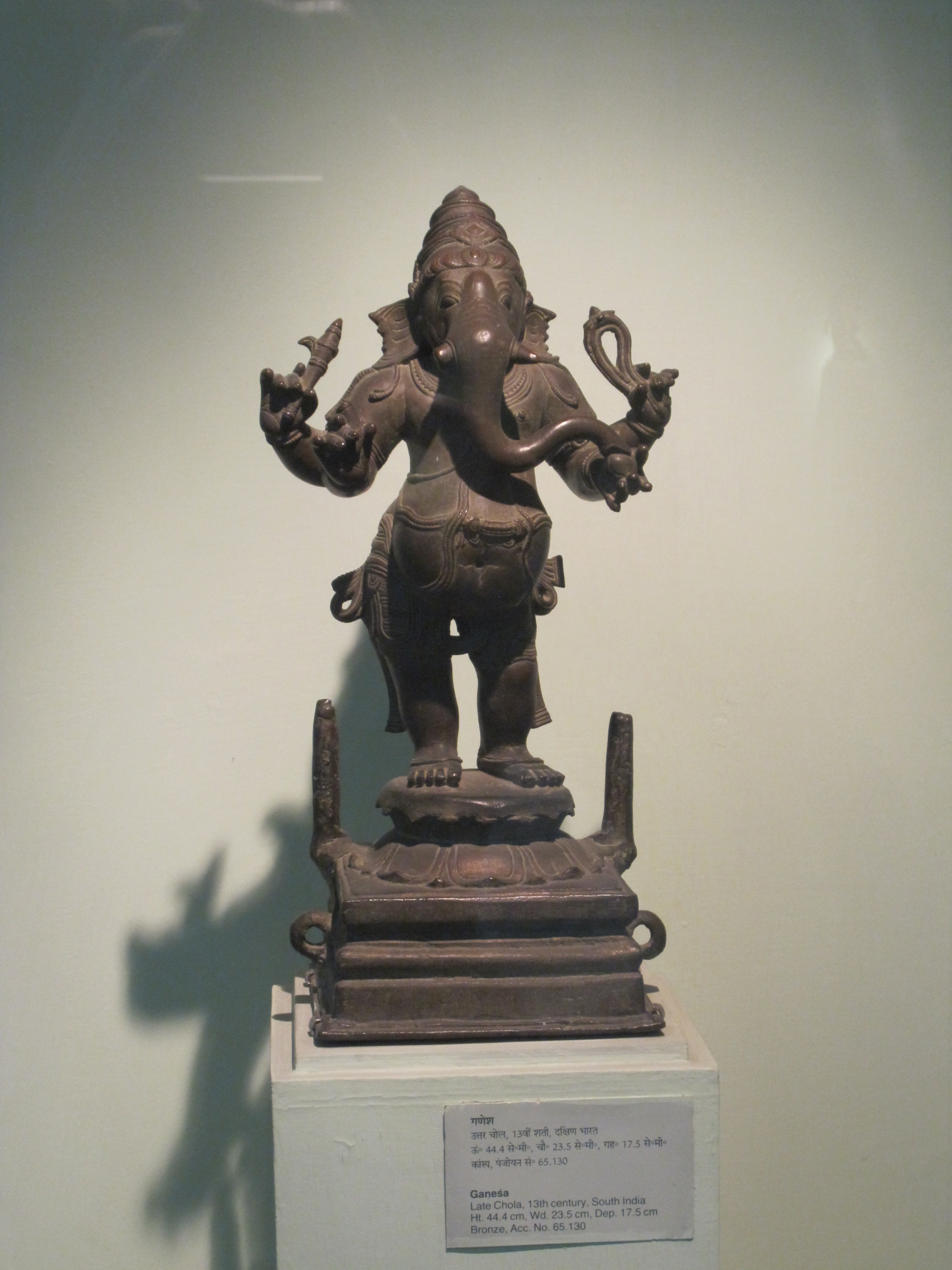 Ganesha (bronze). Late Chola, 13th century, South India. HxWxD (cm): 44x24x18. (Info from museum plaque.)